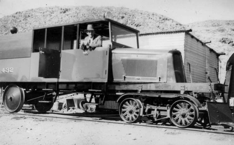 A three quarter view of WAGR AI class petrol railcar no. 431, on the Marble Bar Railway, Western Australia. The photo was taken at some time between October 1935, when the railcar was issued to traffic, and 1949, when it was withdrawn from WAGR service and sold to the State Saw Mills.